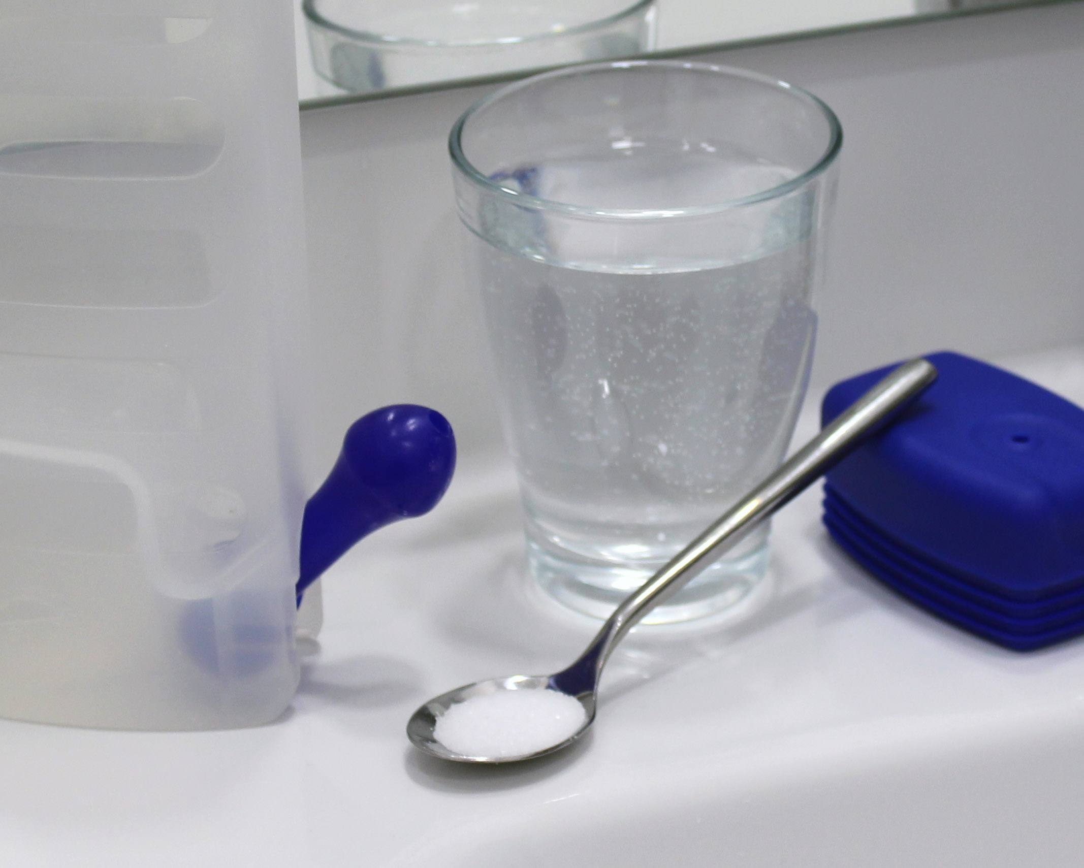 Nasal shower on a washbasin with 250ml water and approx. 2.25g table salt (NaCl) for the preparation of an isotonic saline solution on a teaspoon